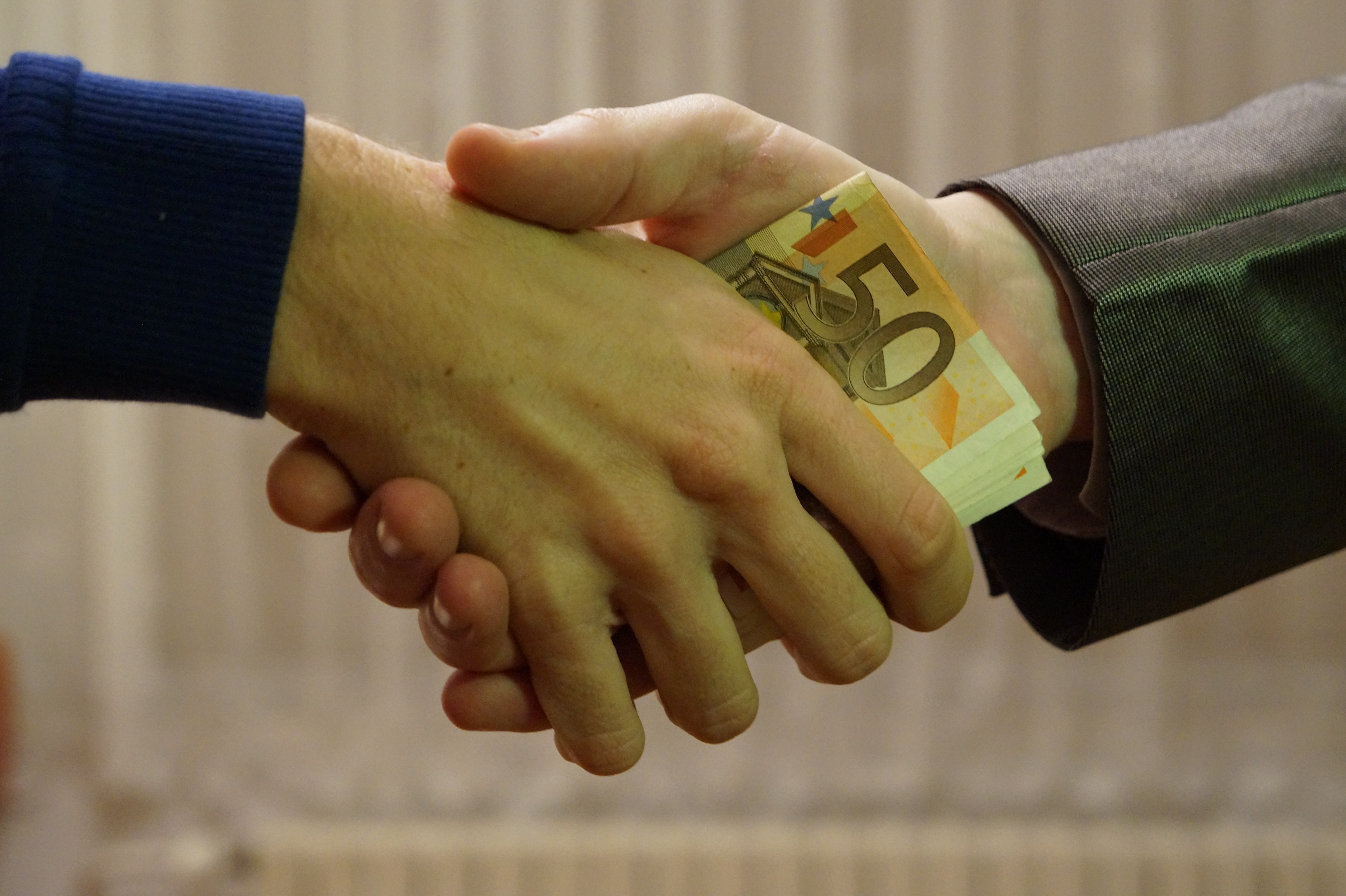 Shaking hands with euro banknotes hidden in the hands. This photo has been released into the public domain. There are no copyrights: you can use and modify this photo without asking, and without attribution.